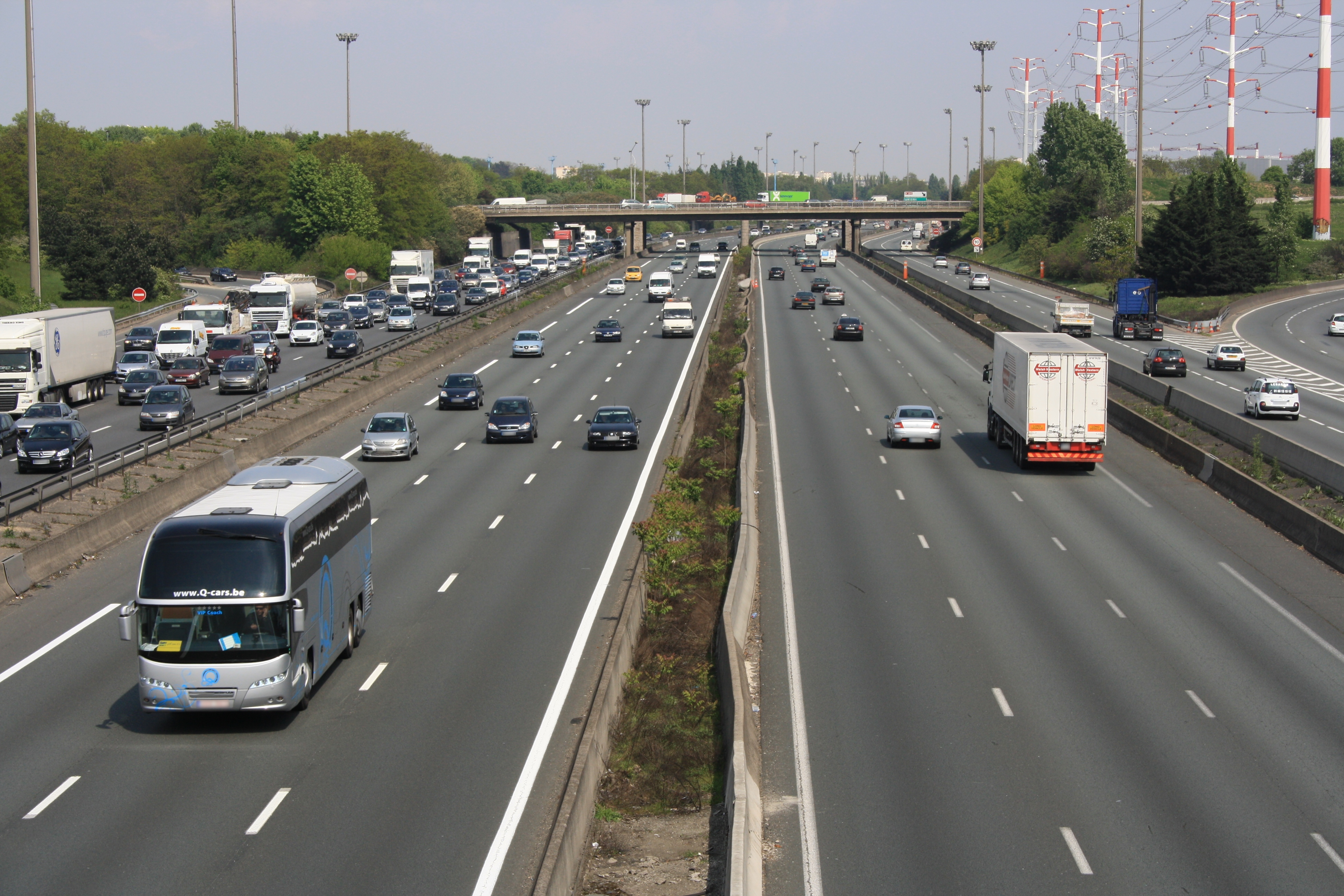 Highway A6 in Fresnes near Paris, France